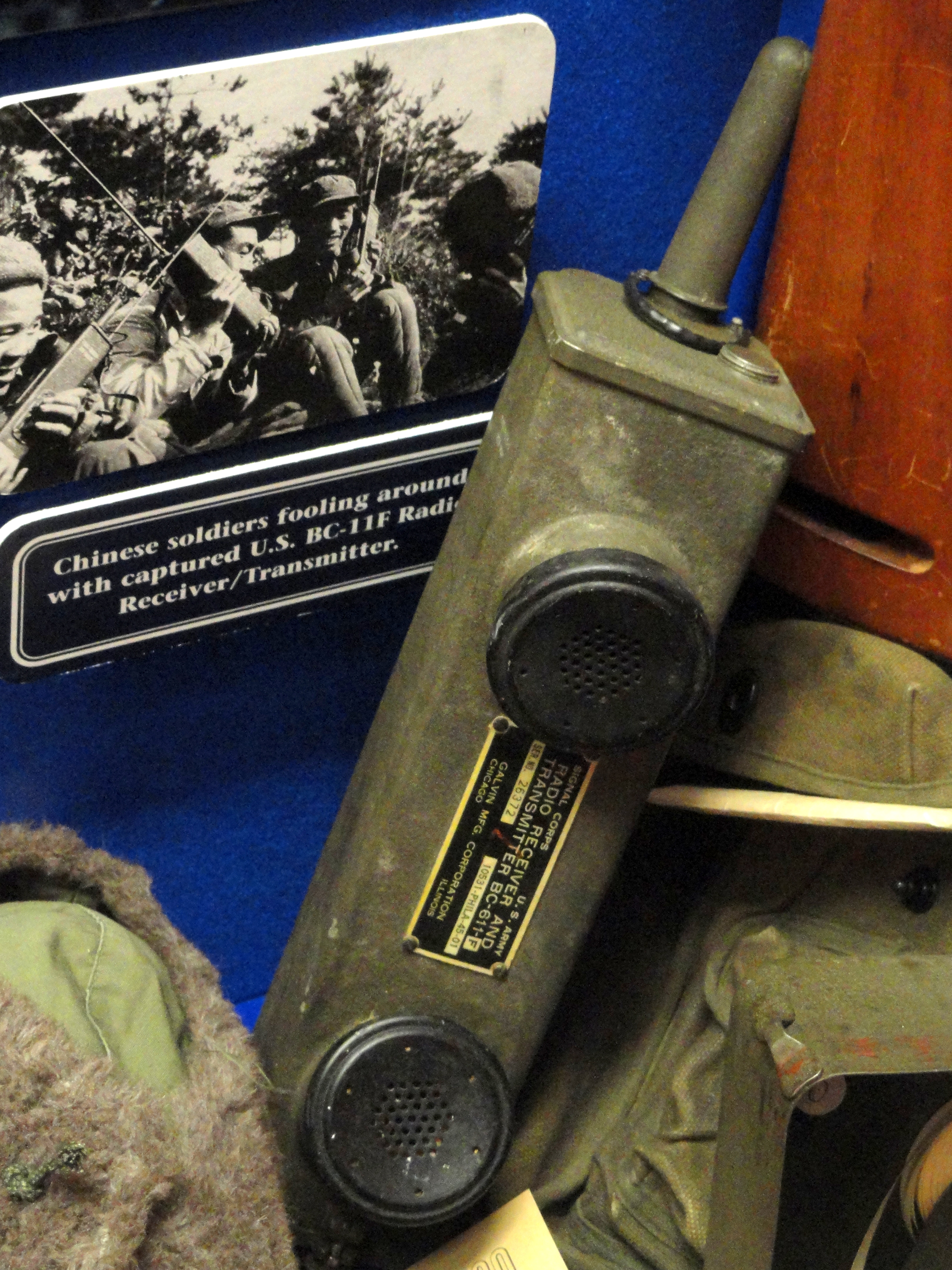 Exhibit in the National Cryptologic Museum, Fort Meade, Maryland, USA. All items in this museum are unclassified; items created by the United States Government are not subject to copyright restrictions.